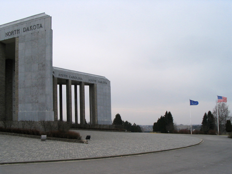 Battle of the Bulge monument on the hill Mardasson (Bastogne, Belgium). Photo by Poldi Rijke